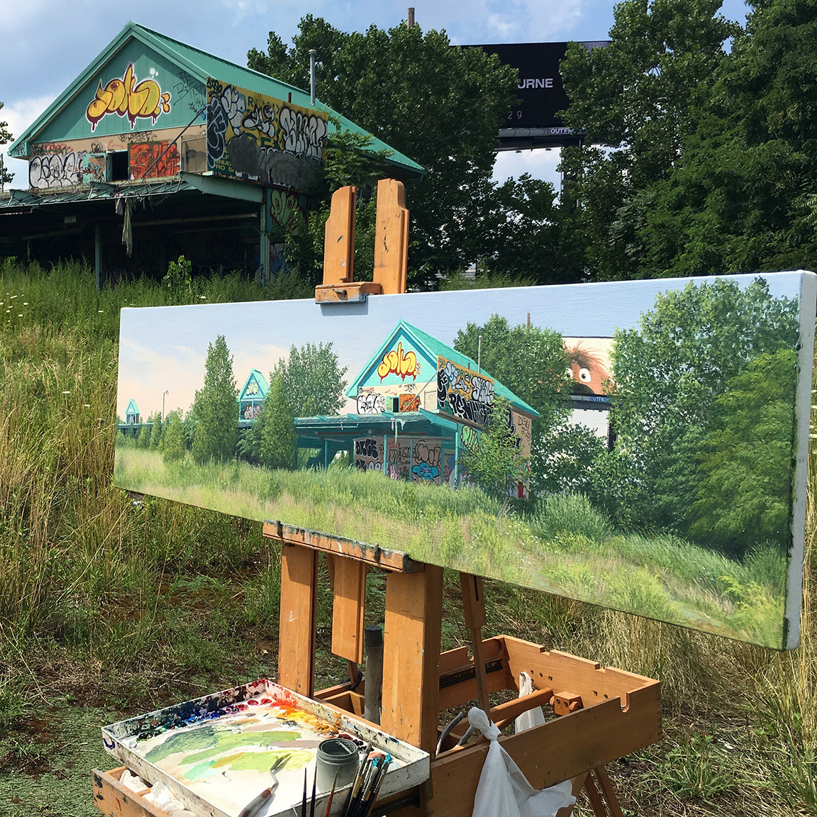 The picture shows a urban landscape painting that Valeri Larko painted on location in the Bronx, NY in the summer fo 2016.